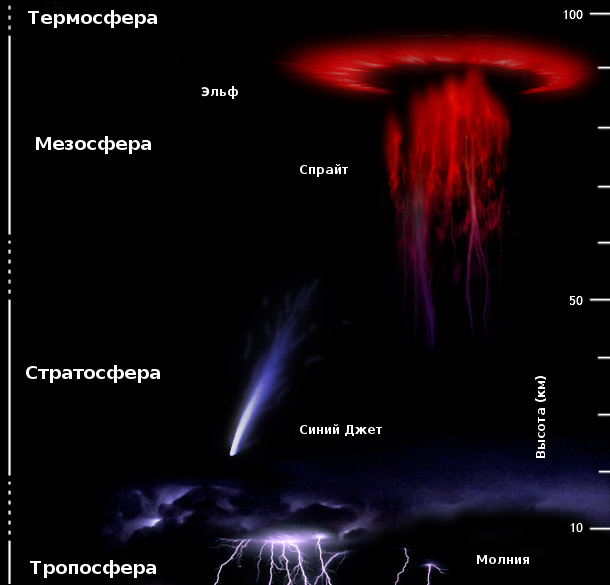 Upper atmospheric lightning and electrical discharge phenomena infographic